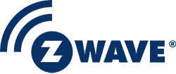 Logo of Z-Wave technology